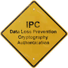 IPC (data loss and leak prevention, cryptology, authentication)